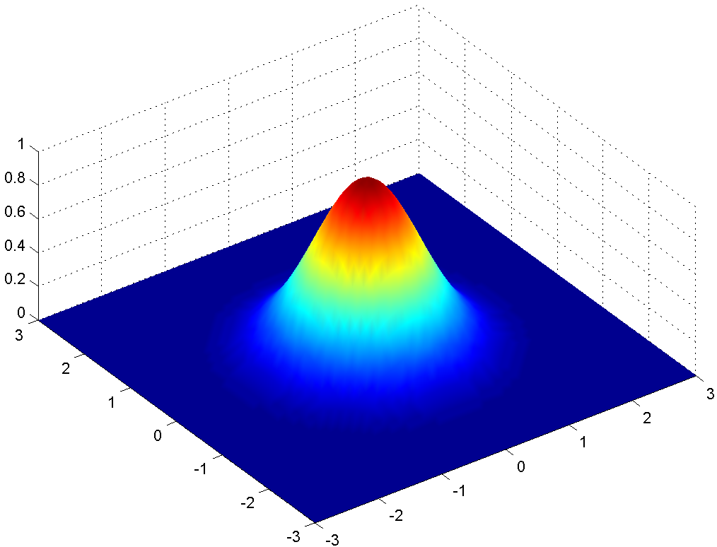 Isometric plot of a two dimensional gaussian created by Kaushik Ghose using MATLAB. The code is [X, Y] = meshgrid(-3:.1:3, -3:.1:3); Z = exp(-X.^2-Y.^2); surf(X,Y,Z); shading interp; view(-36,56)